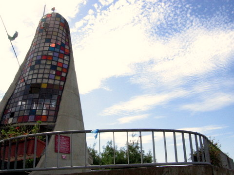 Mitspe Masoa